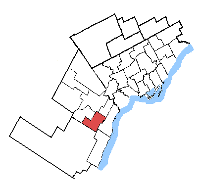 Map of the Mississauga—Erindale electoral district. Based on Earl Andrew's maps, created by SimonP.